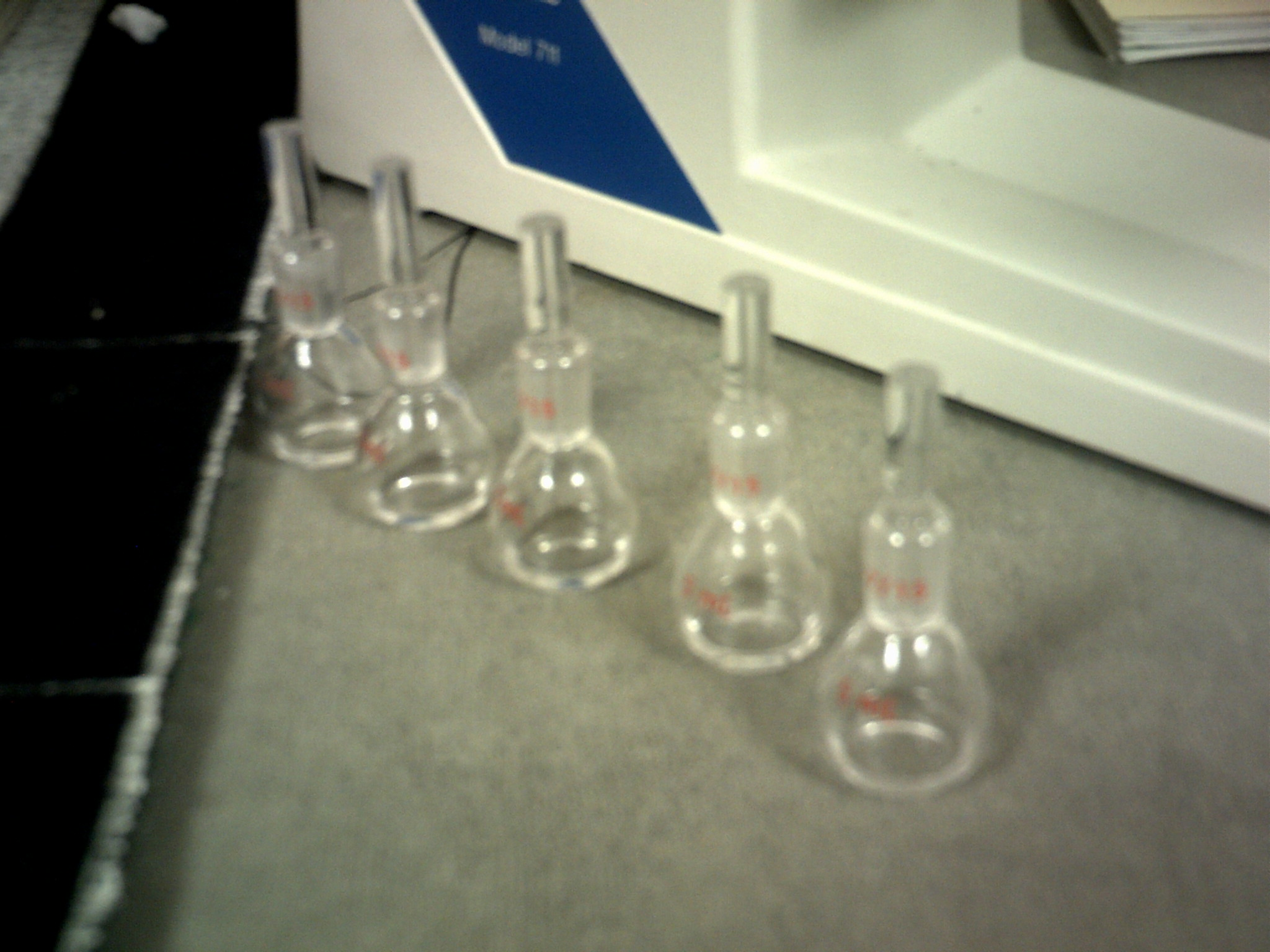 collected different alcohol